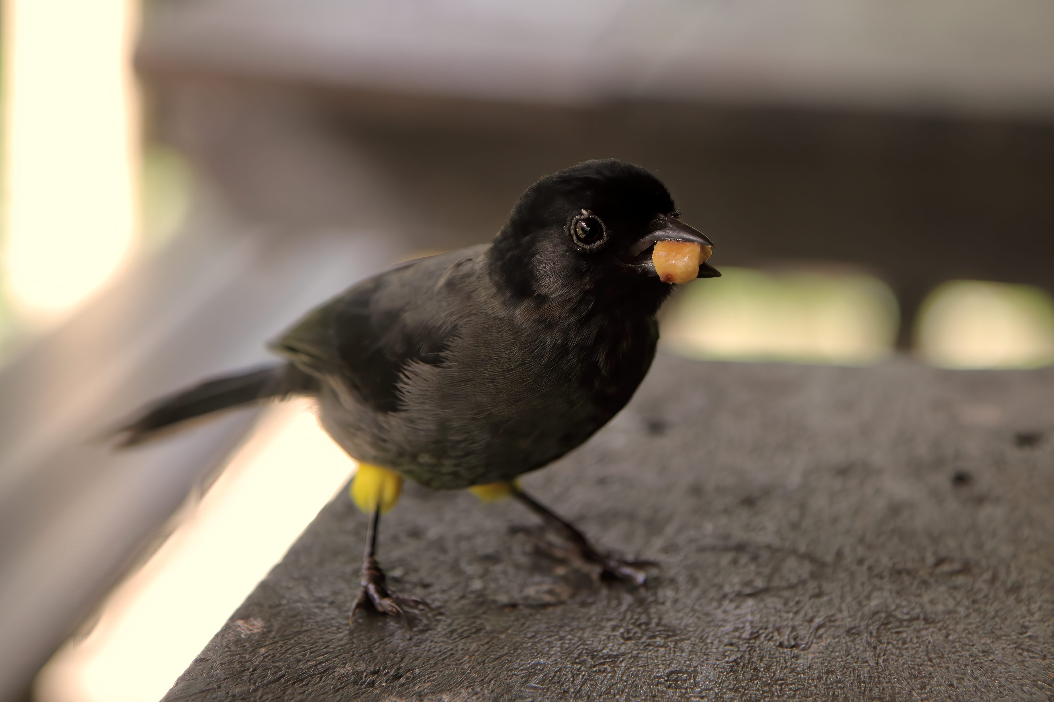 Yellow-thighed finch, Llano Bonito lodge, Cerro Chirripó, Costa Rica